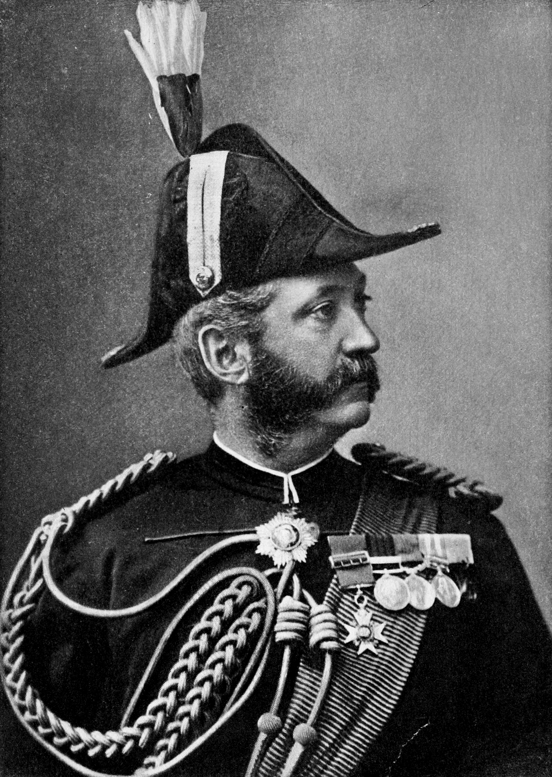 William Butler as lieutenant colonel taken in 1883.